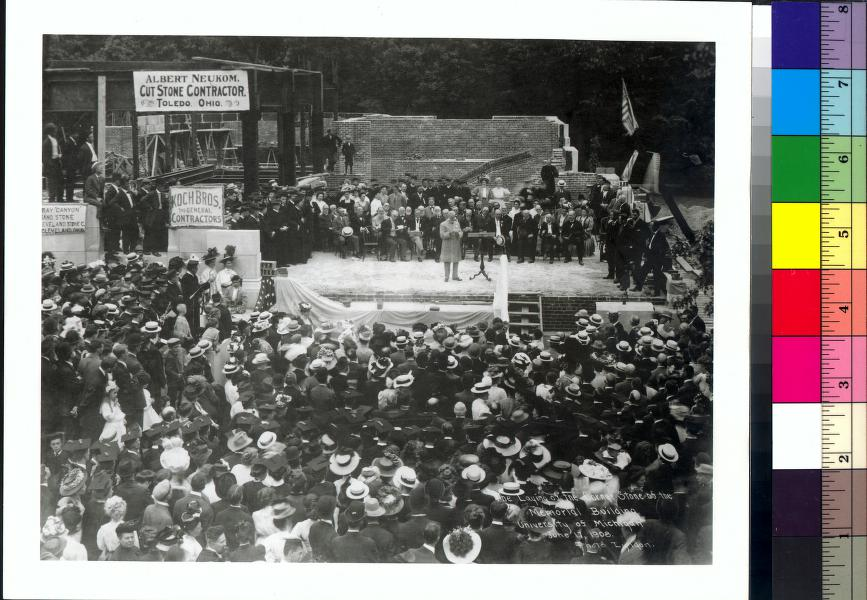 Laying Cornerstone at Memorial Building, University of Michigan, Bentley Historical Library